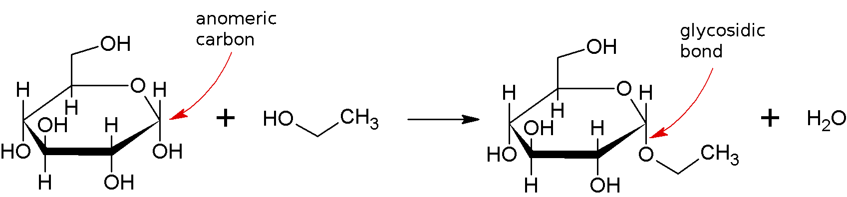 Formation of ethyl glucoside from glucose and ethanol, showing the anomeric carbon and the resulting glycosidic bond. Created with ChemSketch; released into the public domain.